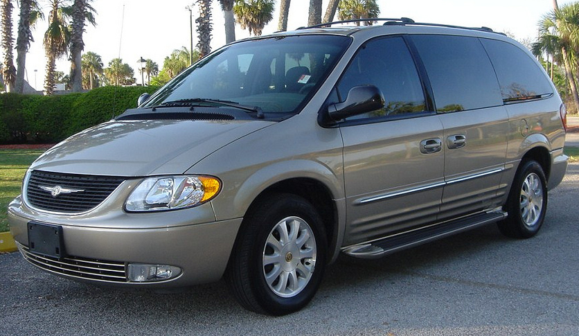 2002 Chrysler Town & Country LXi